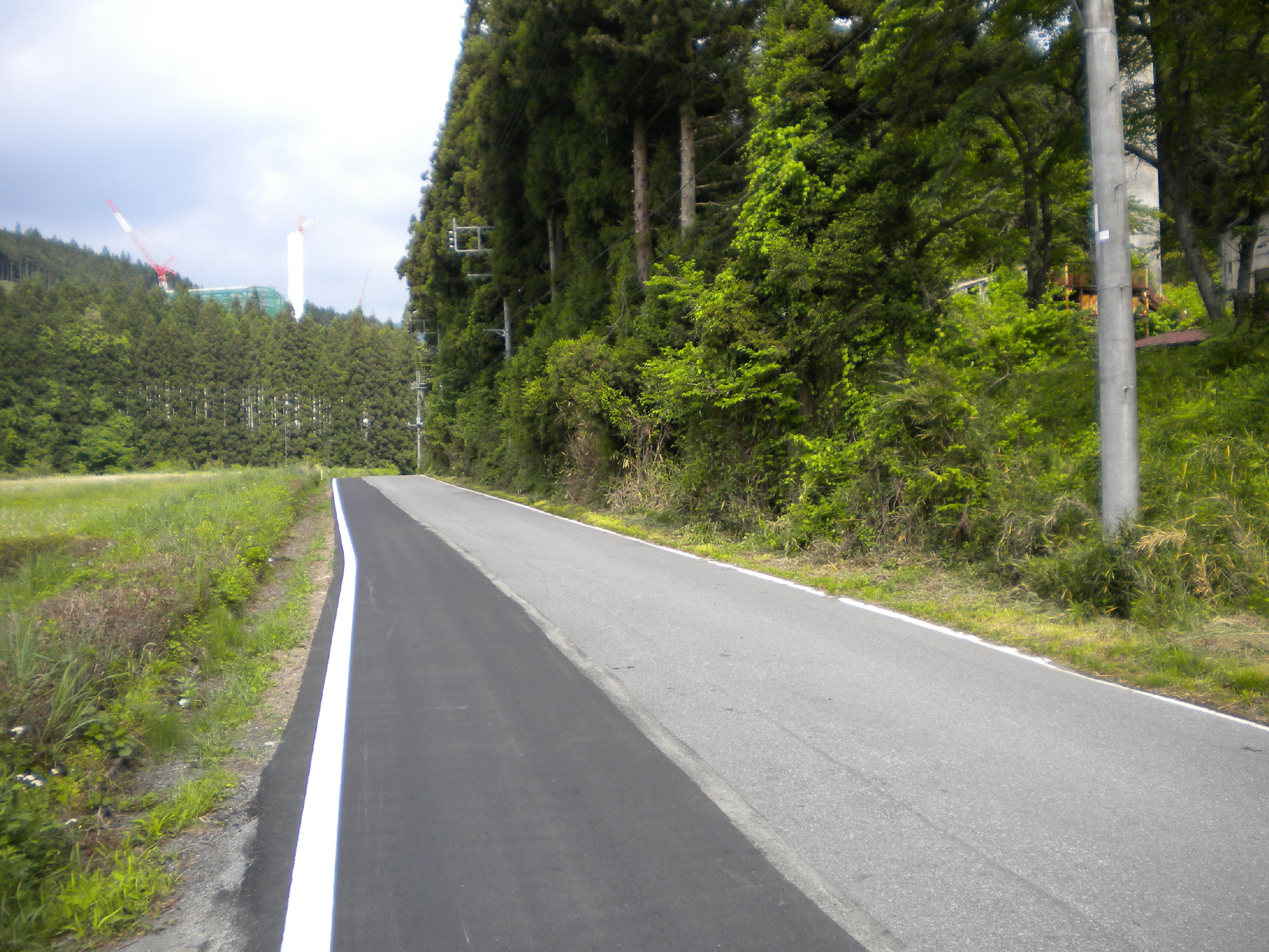 Tochigi prefectural road No.150 on Nikko city